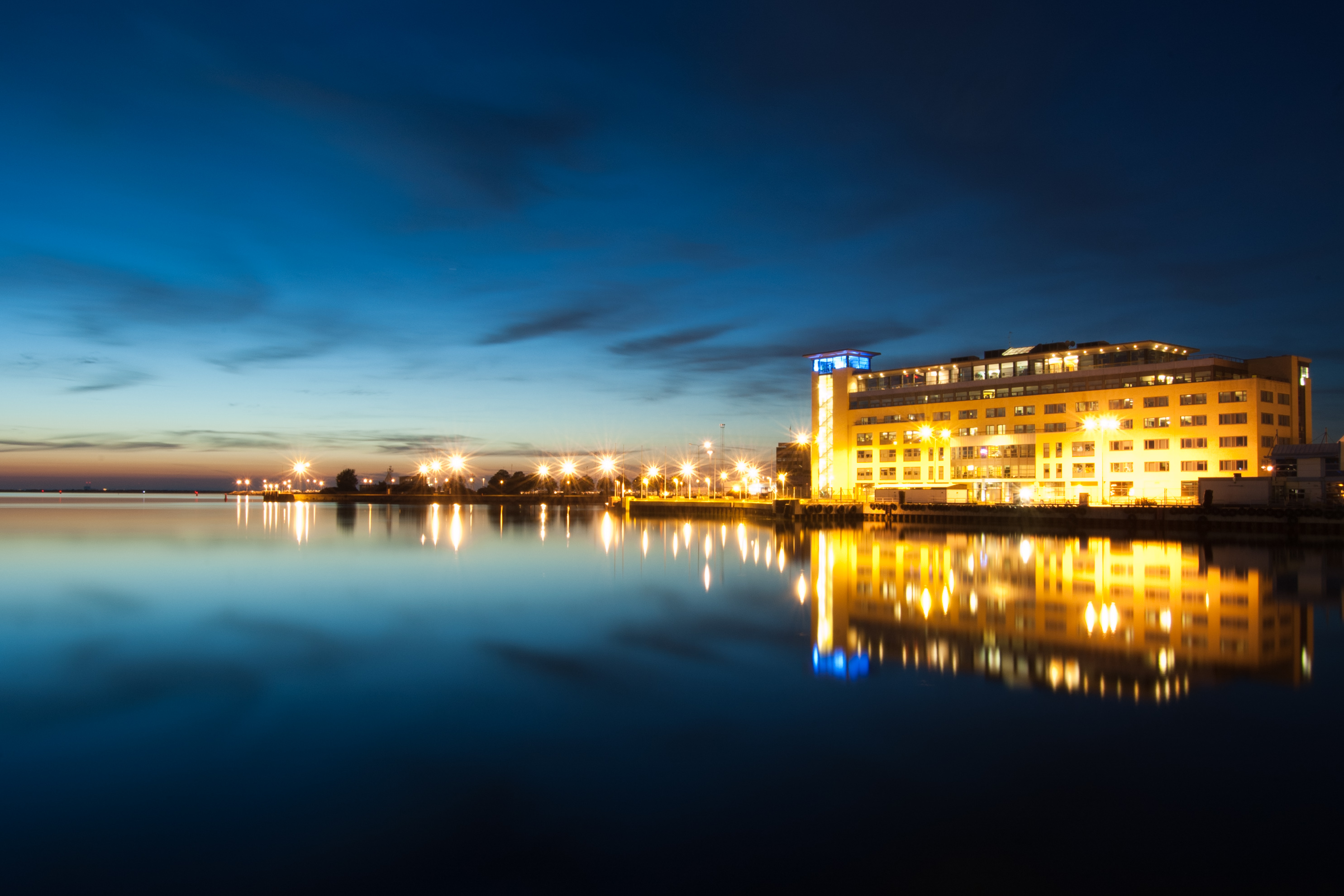 The National Encyclopedia building at Ångbåtsbron in Malmö (Sweden).